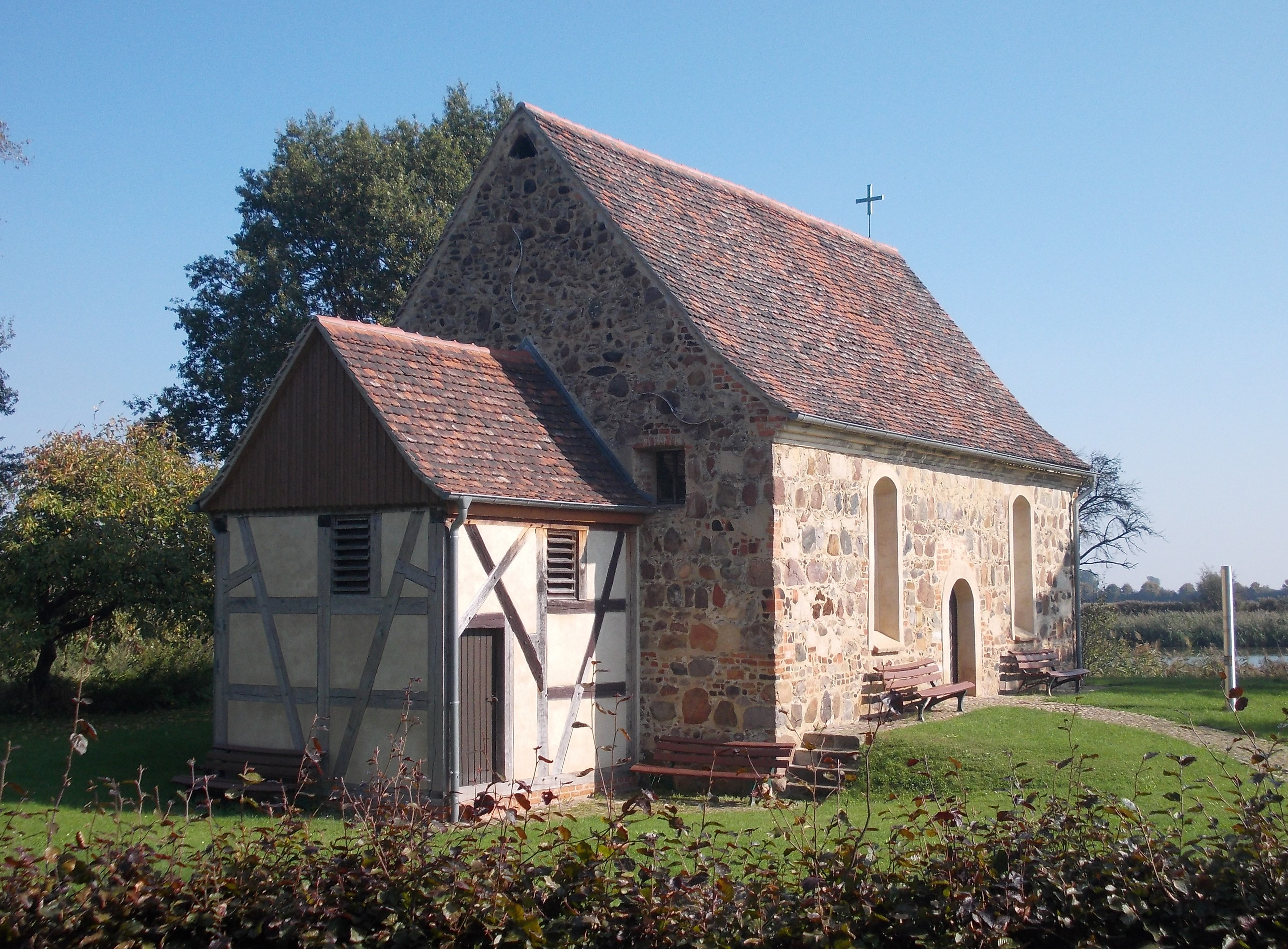 Church of the Elbe Boatmen in Priesitz (Bad Schmiedeberg, Wittenberg district, Saxony-Anhalt)